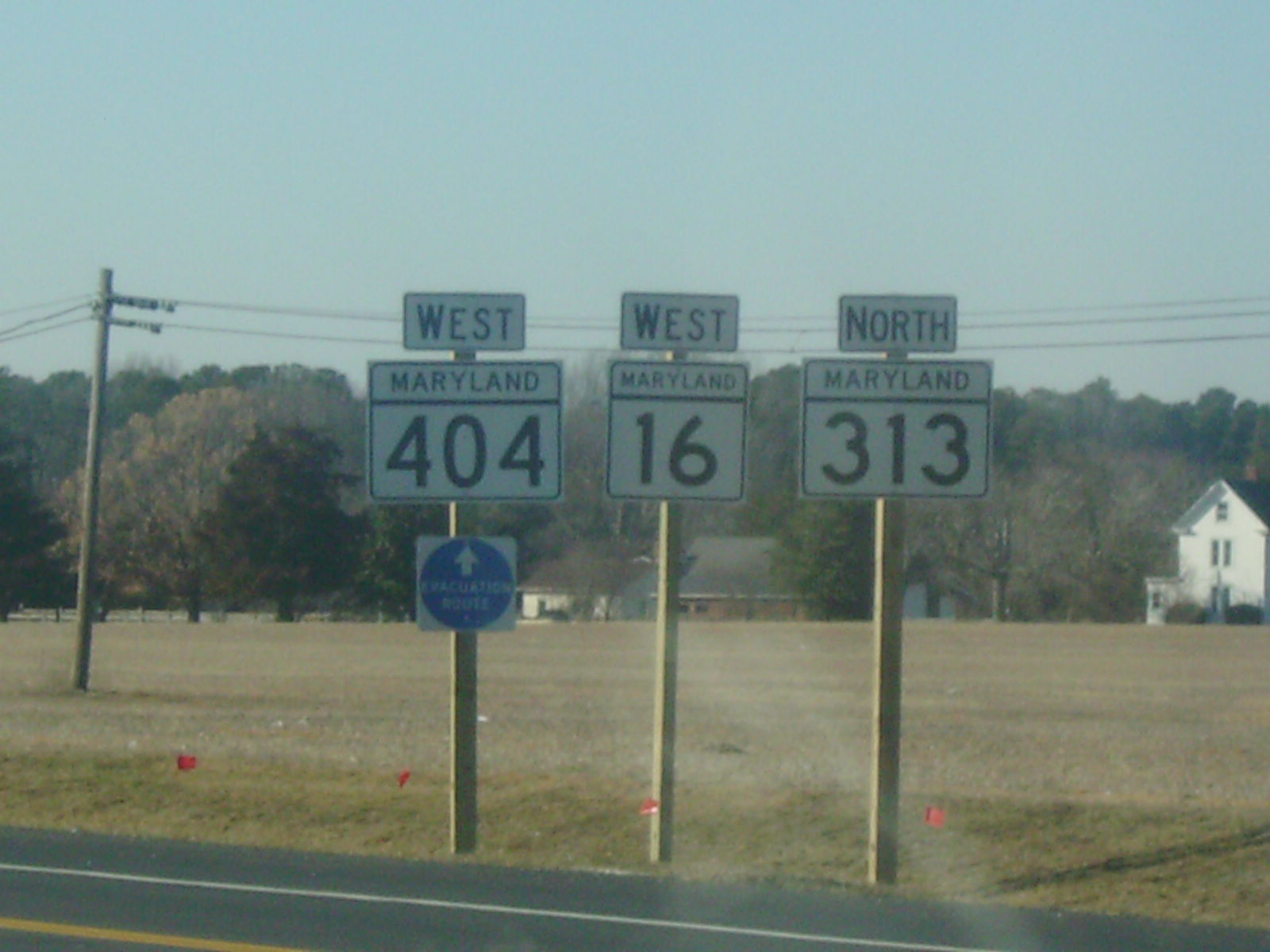 Shields for westbound Maryland Route 16/northbound Maryland Route 313/westbound Maryland Route 404 in Caroline County, Maryland